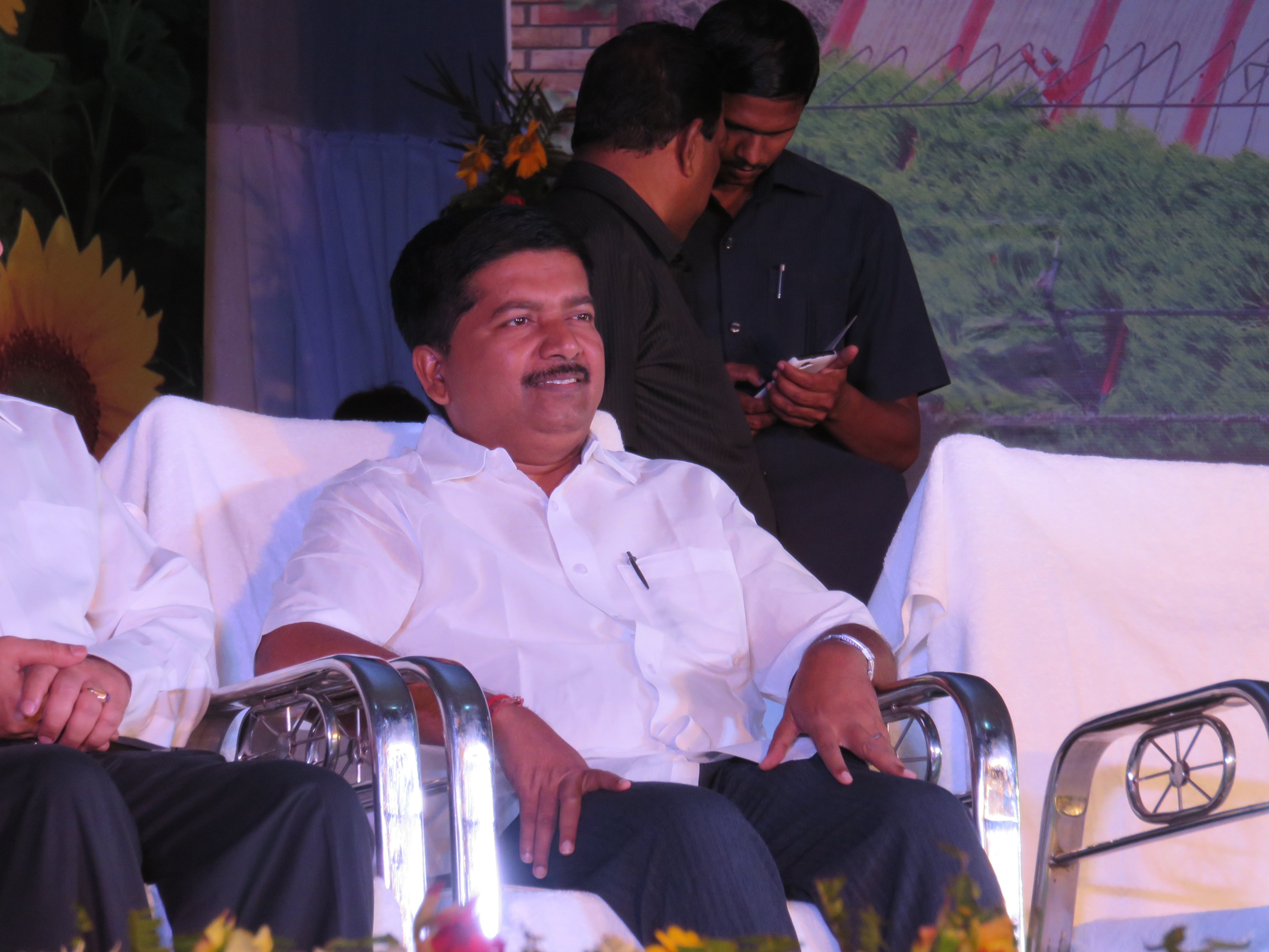 This photo was taken at at Bhubaneswar Odisha.BJD politician ଓଡ଼ିଆ: ଏହି ଫଟୋଟି ଓଡ଼ିଶାରେ ଉଠାଯାଇଛି ।